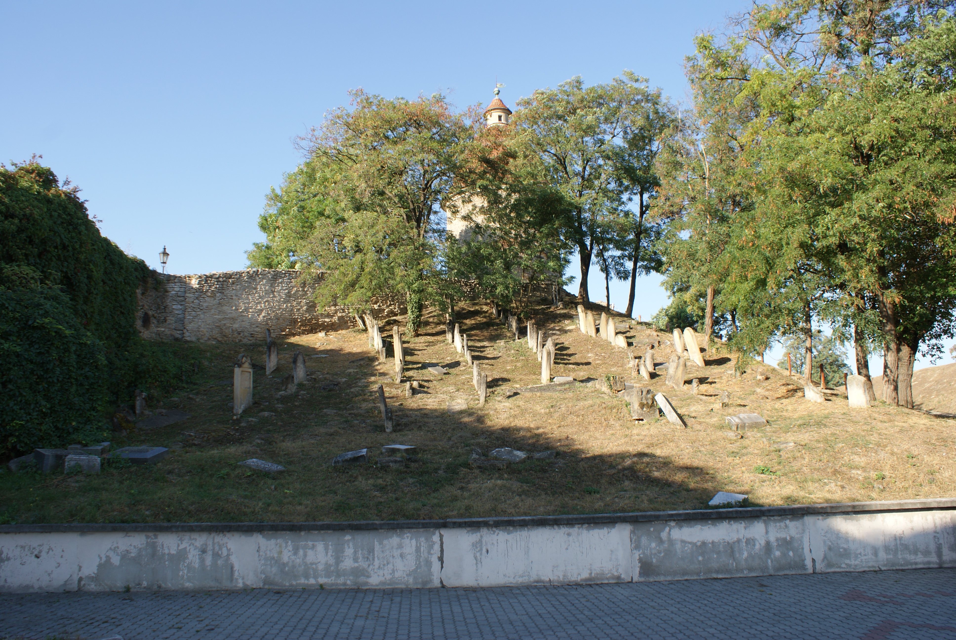 Old Jewish cemetery in Skalica, Skalica district, Slovakia.